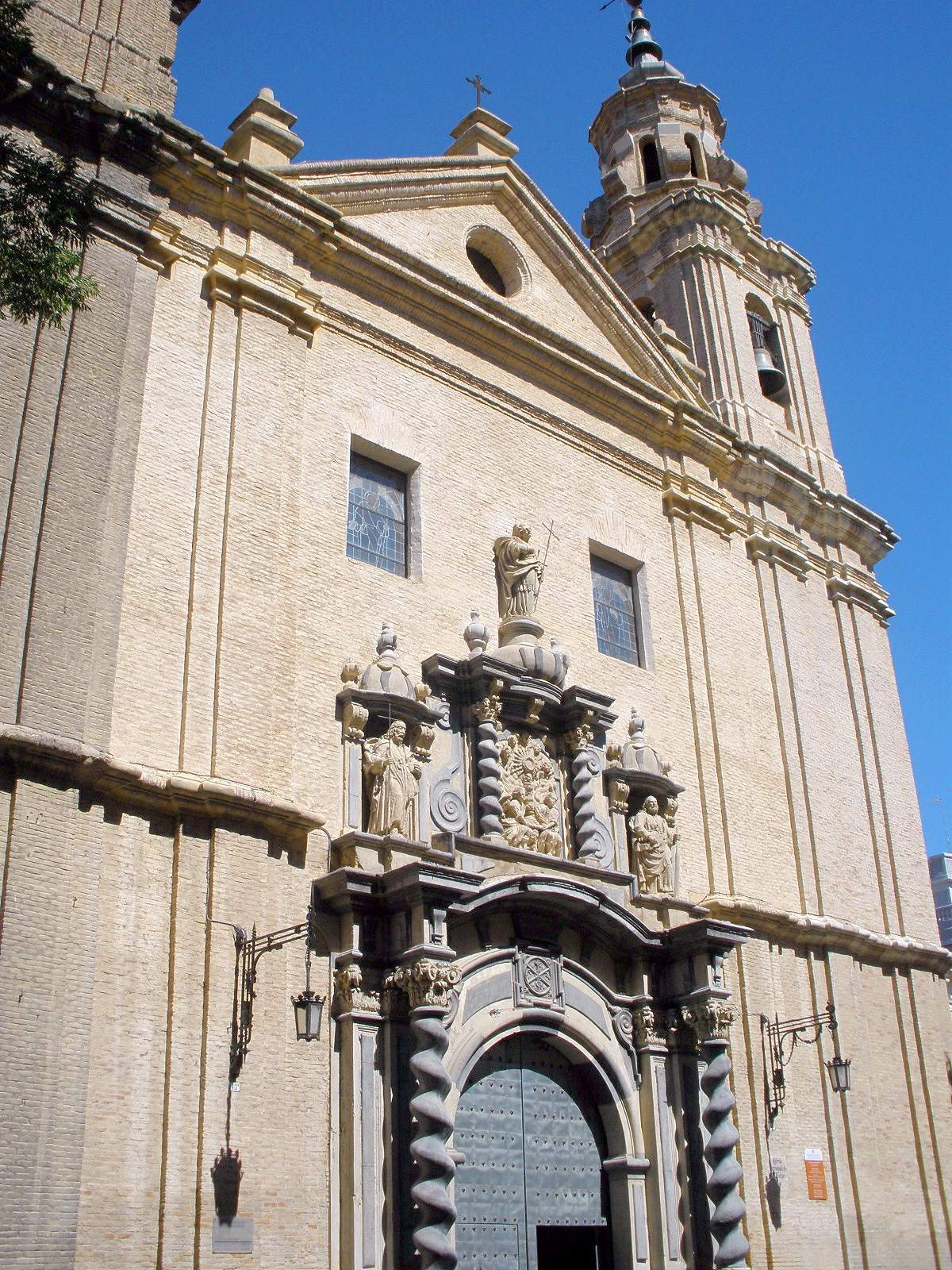 Iglesia de San Felipe y Santiago el Menor (Zaragoza)